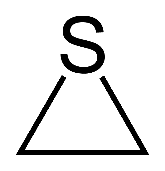 Skeletal formula of the ethylene sulfide (thiirane) molecule, C2H4S